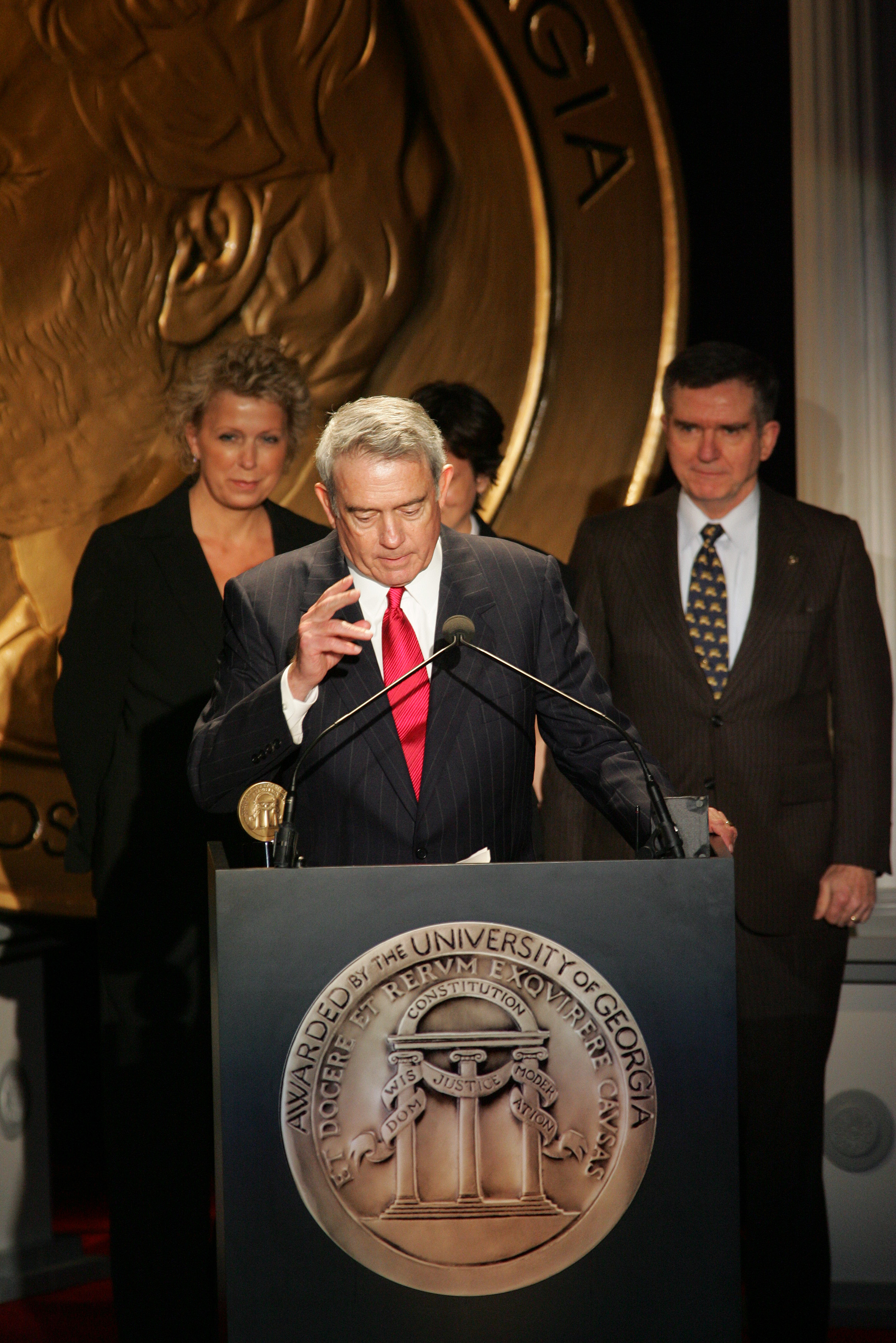 Mary Mapes, Dan Rather, and Roger G. Charles, 64th Annual Peabody Awards Luncheon Waldorf=Astoria Hotel New York, NY USA May 16, 2005